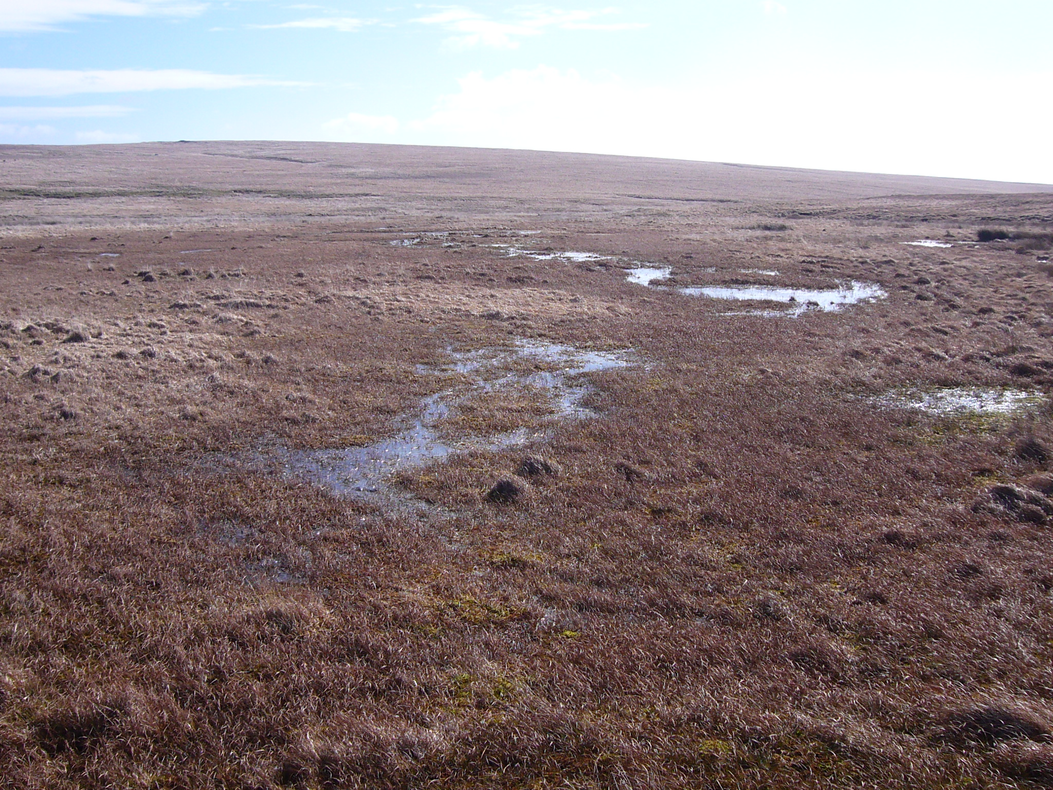 The start of the River Avon of South Dartmoor. An area of very wet bog partly due to extensive tinning works.